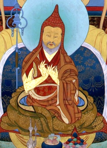 Gyalse Shenphen Taye (1800-1855), First Kushok Grmang Rinpoche and 8th Abbot of Dzogchen Monastery, Tibet